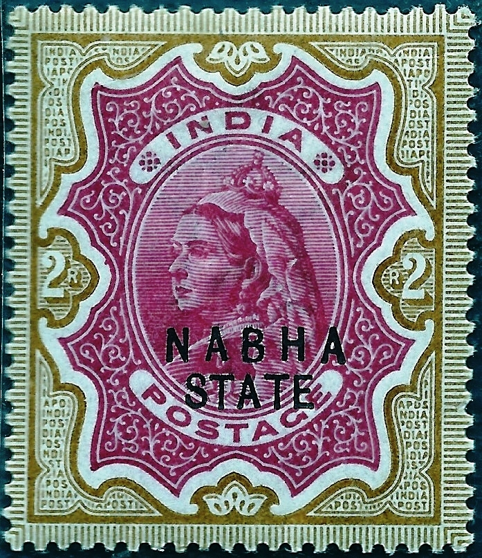 Two Rupees Queen Victoria Head (carmine & yellow-brown colours) overprinted with "NABHA STATE" (Typeface 4). (1897) Postage stamp of Nabha state, an Indian convention state in the Punjab. Ser No 31 for Nabha in Stanley Gibbons Stamp Catalogue Commonwealth & British Empire Stamps (1840-1970). (2008). London. Ref pp 286-287. Own work. From the collection of Brig A.P. Singh (self). This work created by the United Kingdom Government is in the public domain. This is because it is one of the following: It is a photograph taken prior to 1 June 1957; or It was published prior to 1970; or It is an artistic work other than a photograph or engraving (e.g. a painting) which was created prior to 1970. HMSO has declared that the expiry of Crown Copyrights applies worldwide (ref: HMSO Email Reply)More information. See also Copyright and Crown copyright artistic works.